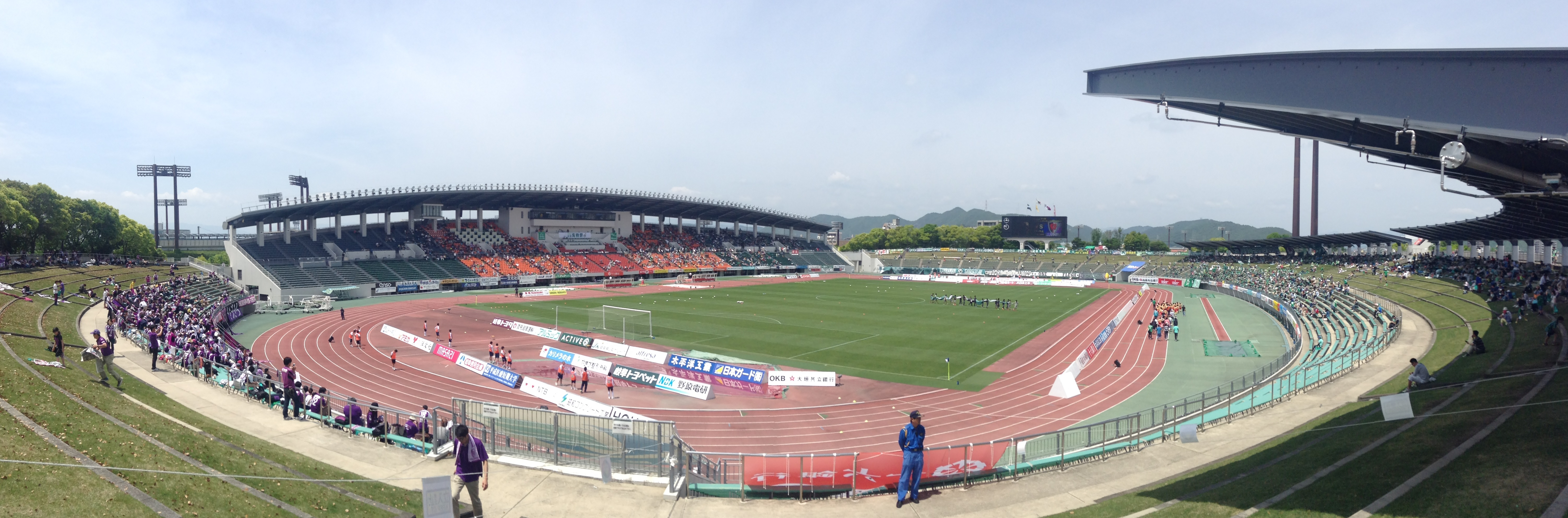 The panoramic photograph of Gifu Nagaragawa Stadium. J2 League, FC GIFU vs Kyoto Sanga F.C., 6 May, 2015（After correction）